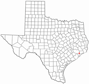 Map of Texas showing location of Baytown